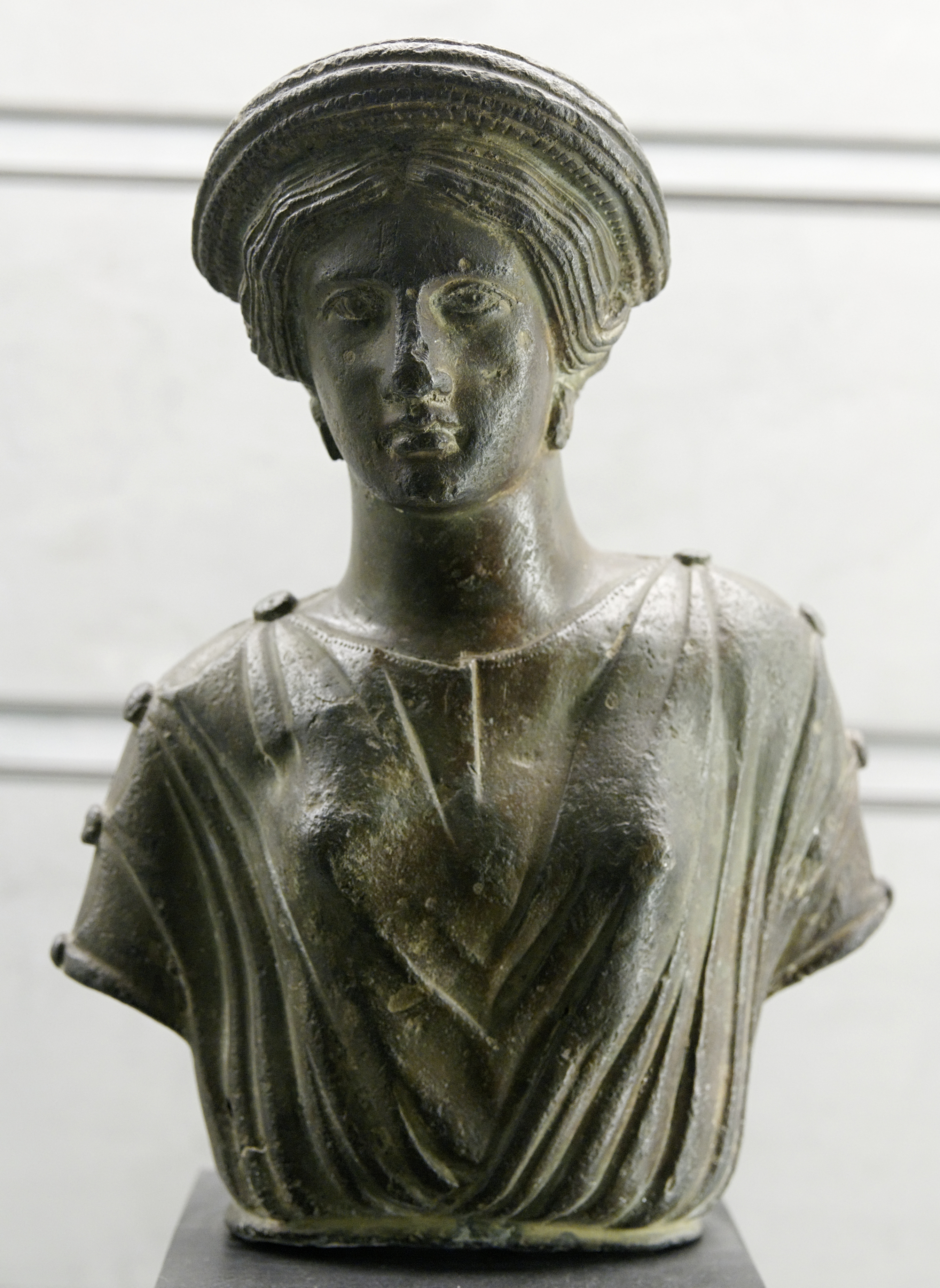 Bust of a woman. Bronze, Etruscan artwork, 4th century BC. From the area of Florence, Italy.